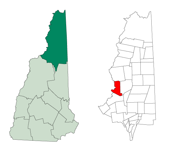 Map of a municipality in Coos County, New Hampshire